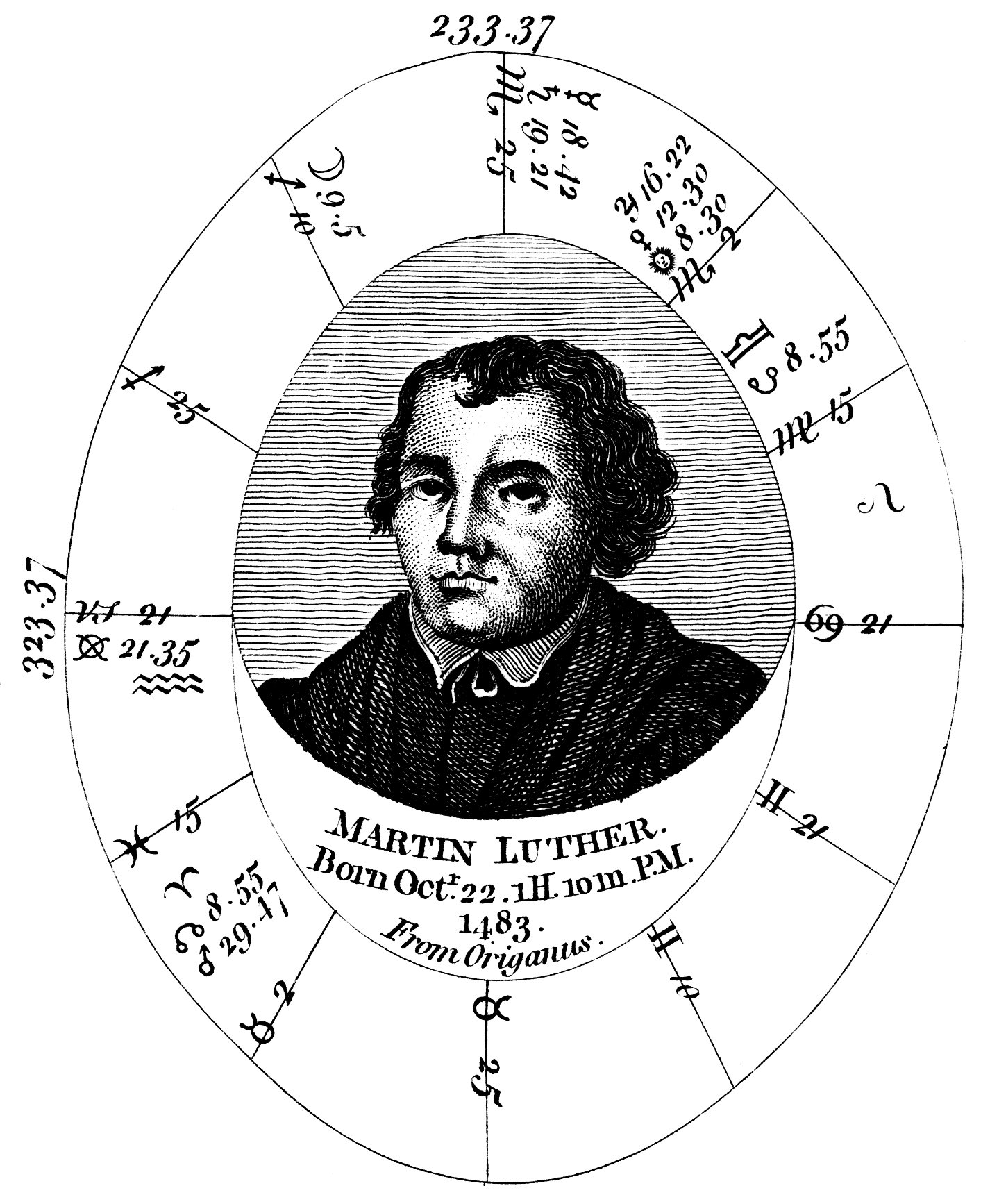 Horoscope drawn for the birth of Martin Luther appearing in Ebenezer Sibly's Astrology.